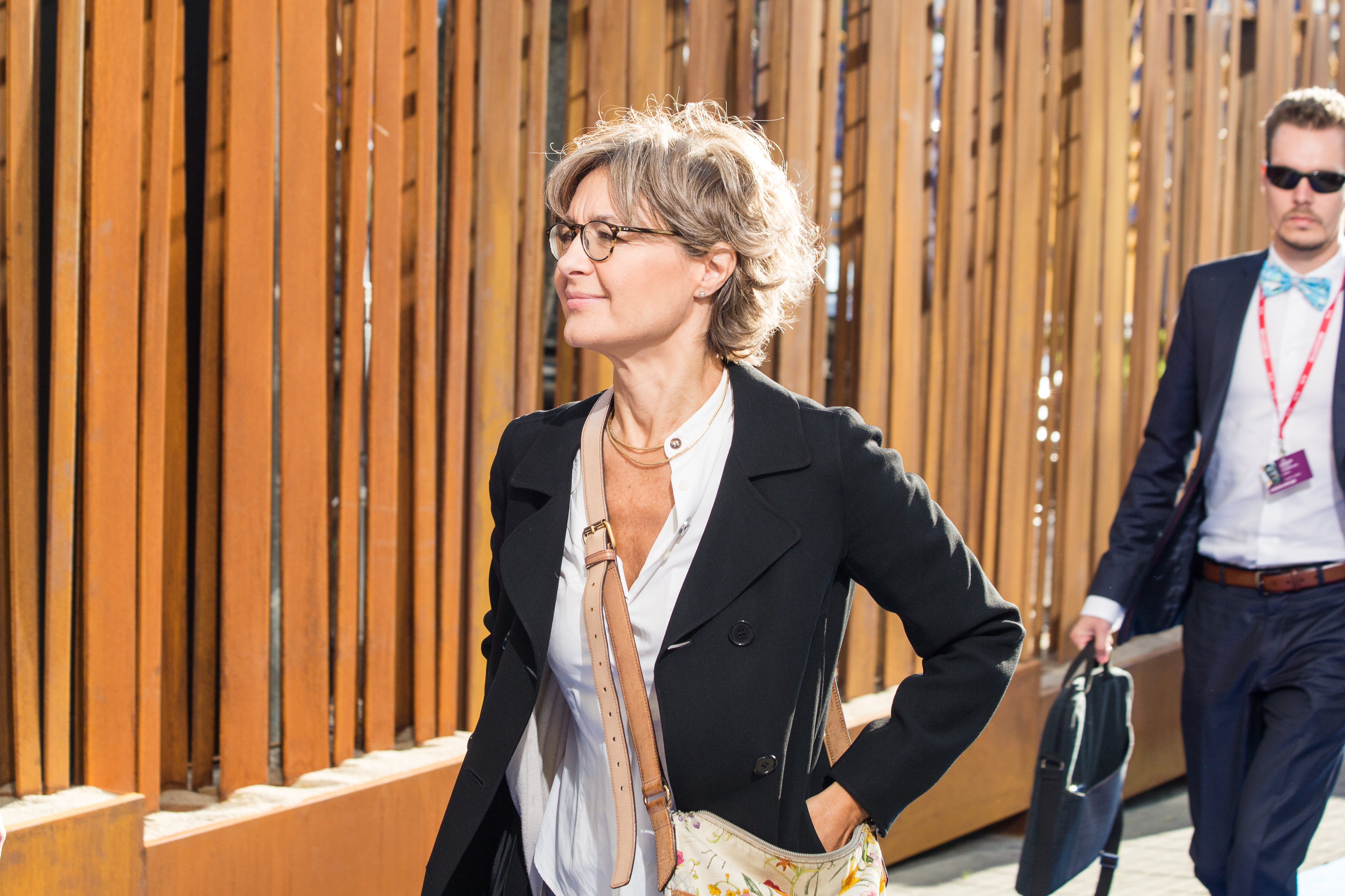 Isabel García Tejerina, Minister, Ministry of Agriculture and Fisheries, Food and Environment, Spain Photo: Aron Urb (EU2017EE)